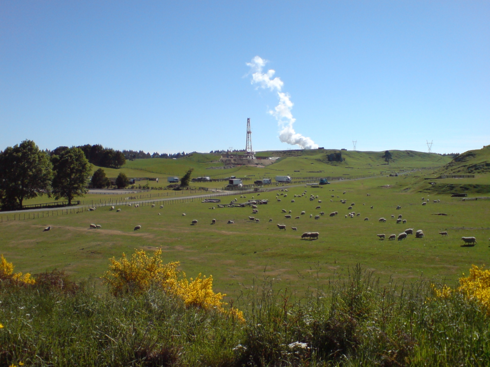 A geothermal drilling rig near Lake Taupo, New Zealand. The region has a long history of geothermal power plants going back almost half a century, and a number of new wells are now being dug for large new generation facilities.